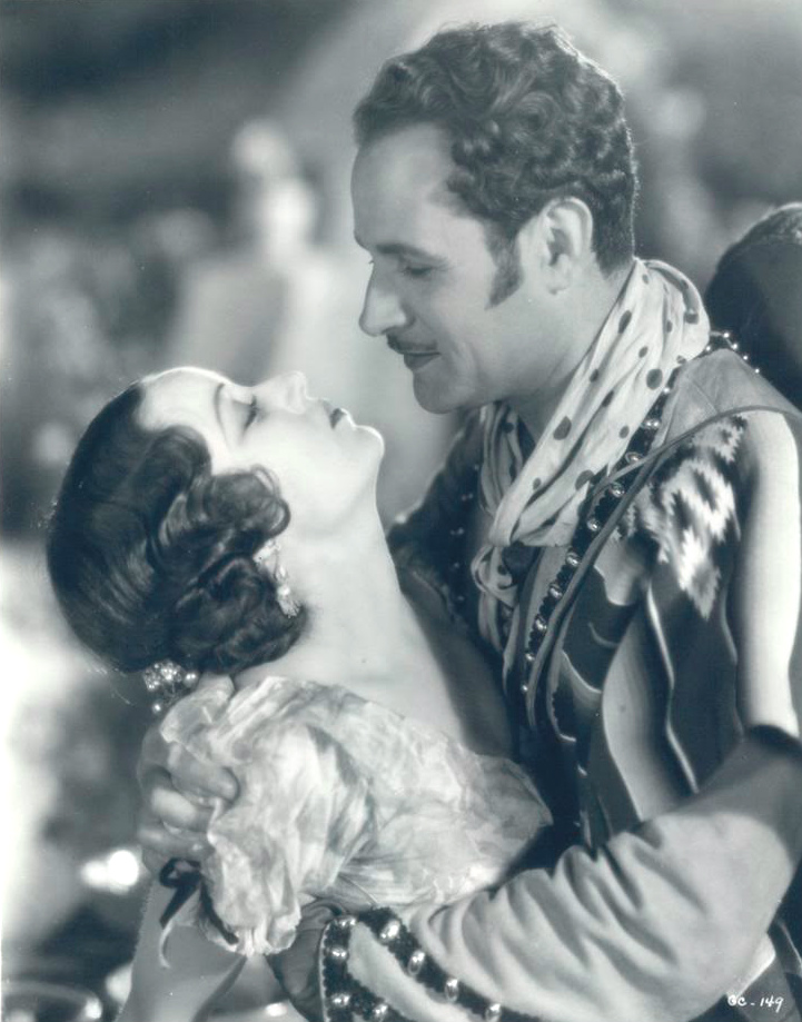 Photo of Fay Wray and Victor Varconi from the 1930 film Captain Thunder.